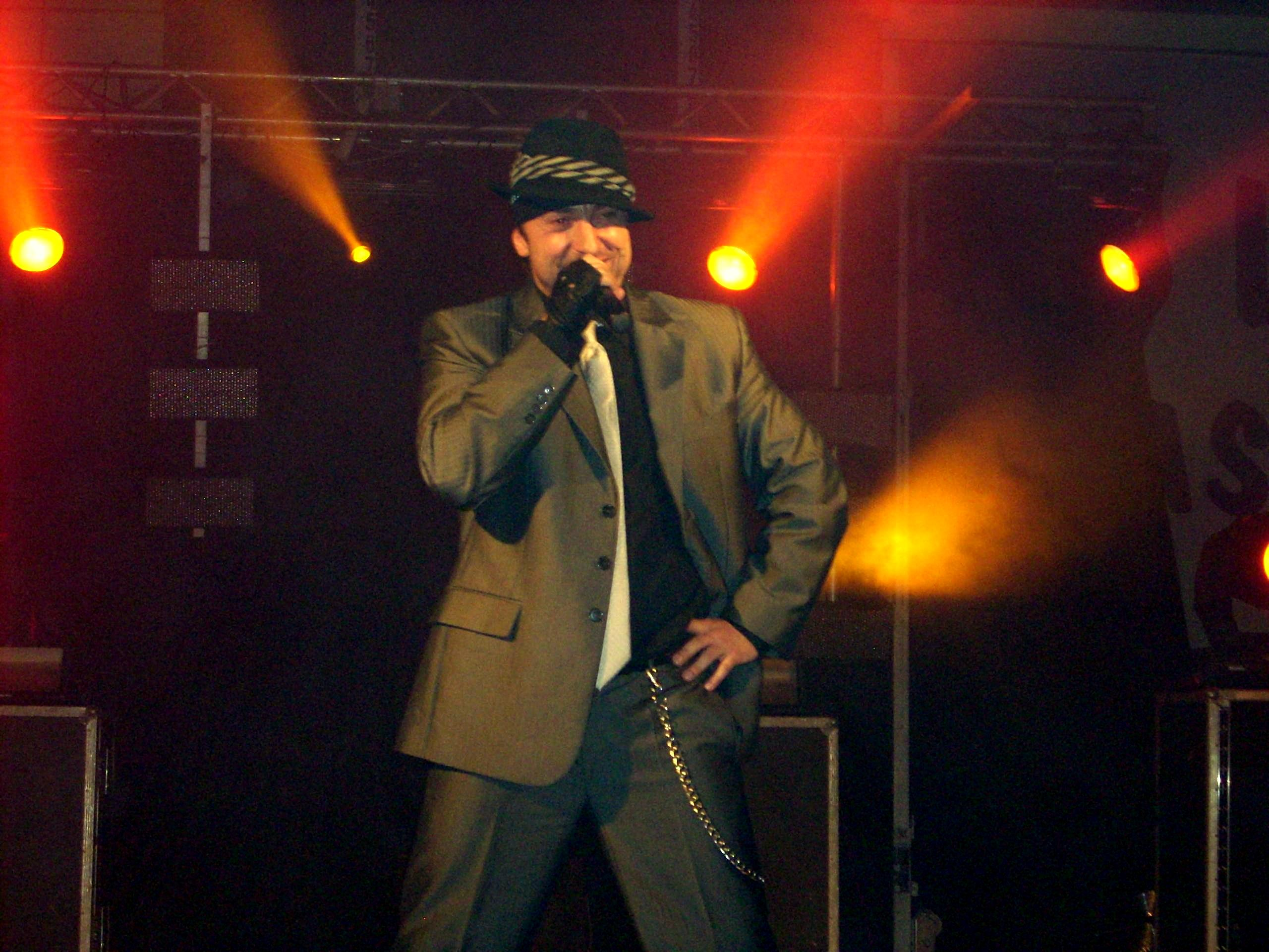 Marcin Miller - leader of polish disco-band called "Boys".